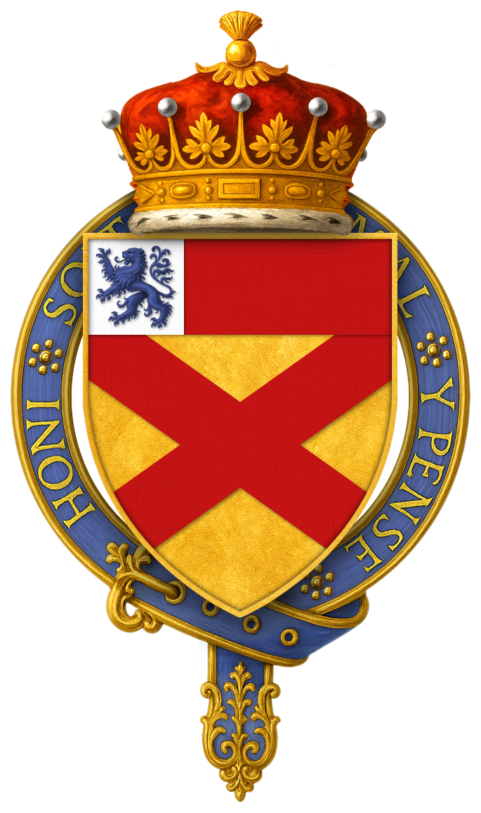 Garter encircled arms of Victor Bruce, 9th Earl of Elgin, KG, as displayed on his Order of the Garter stall plate in St. George's Chapel.